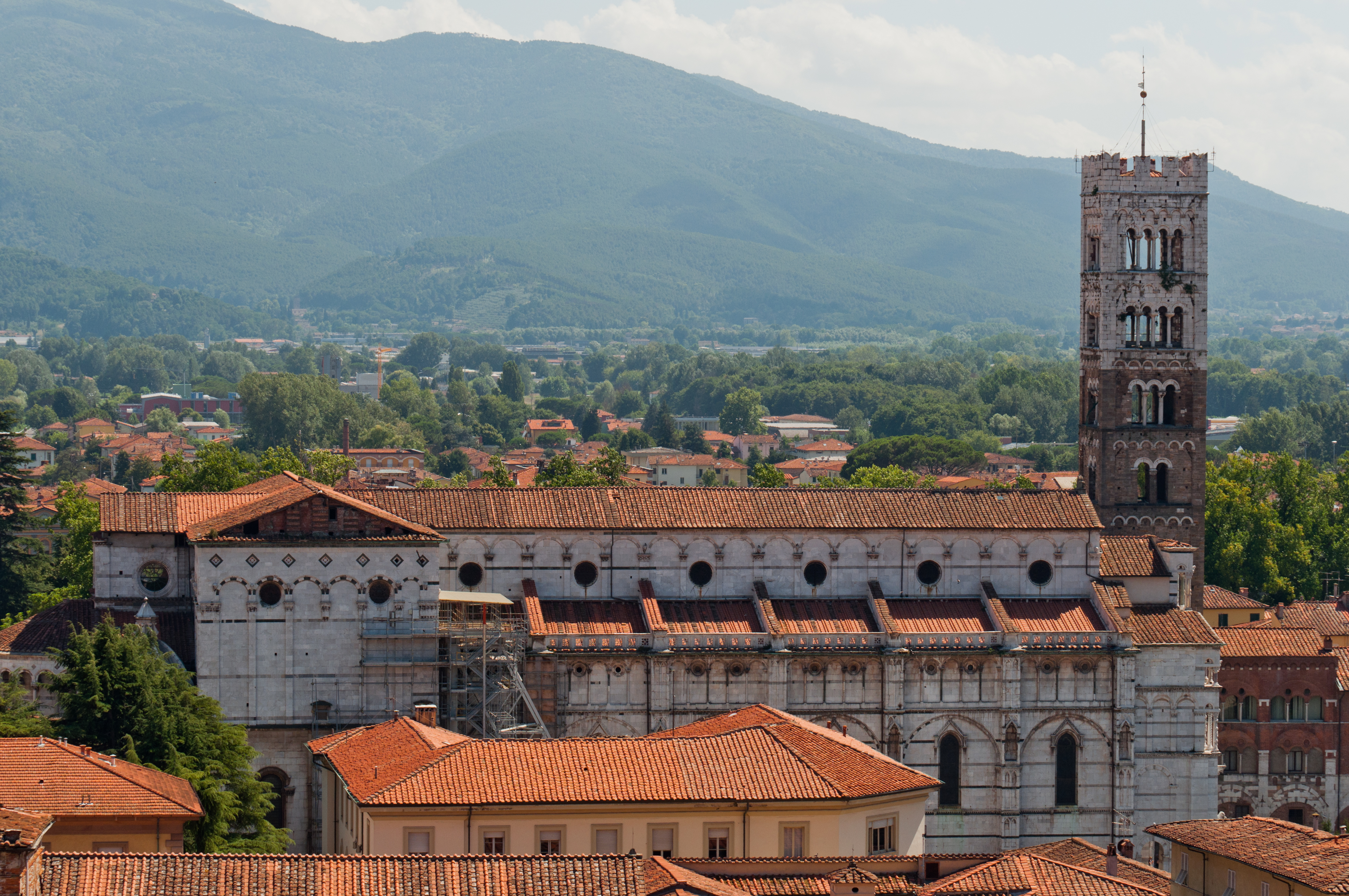 The cathedral of Lucca, seen from Torre Guinigi